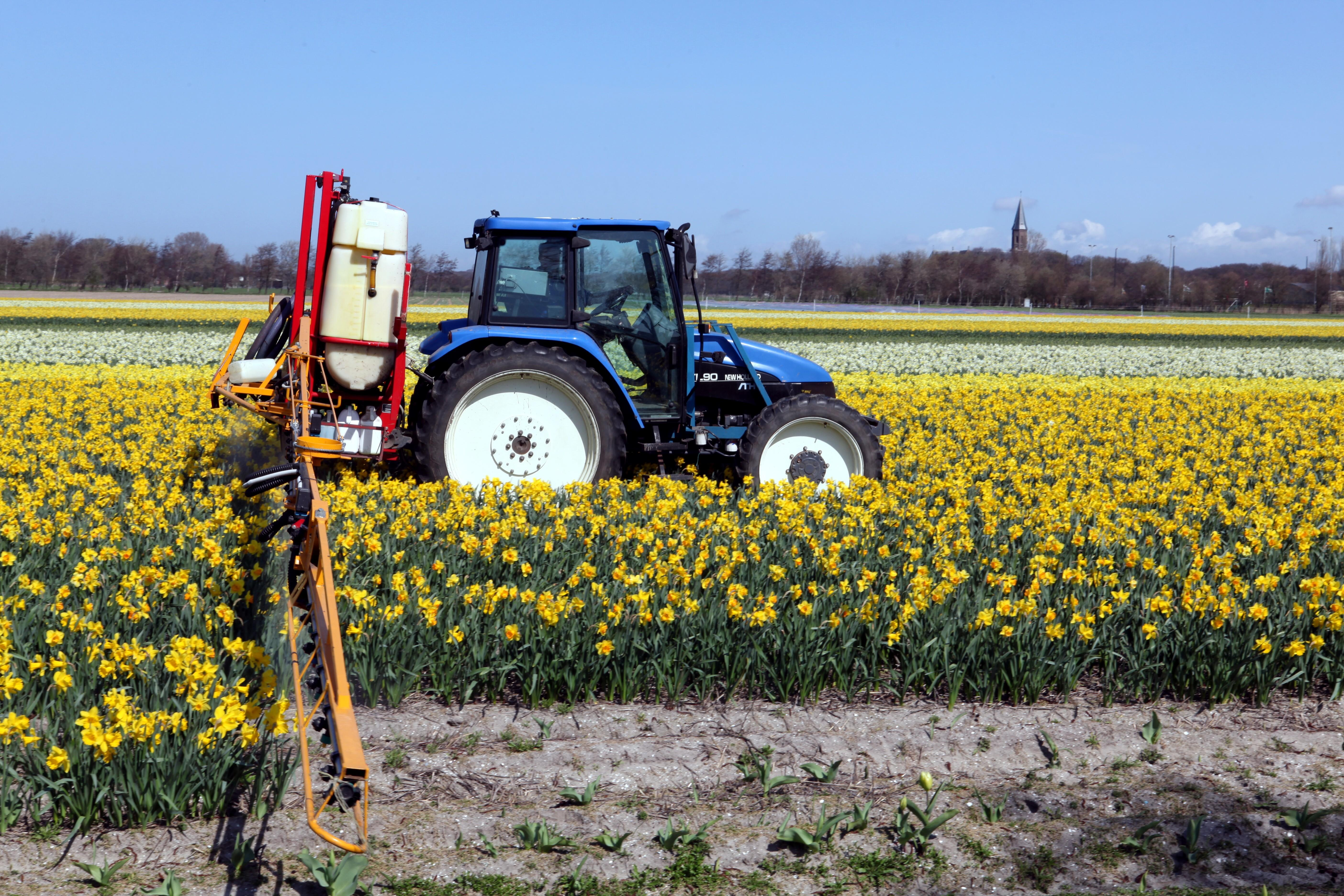 New Holland TL 90 with a field sprayer on a Narcissus field in Europe (the Netherlands presumably)